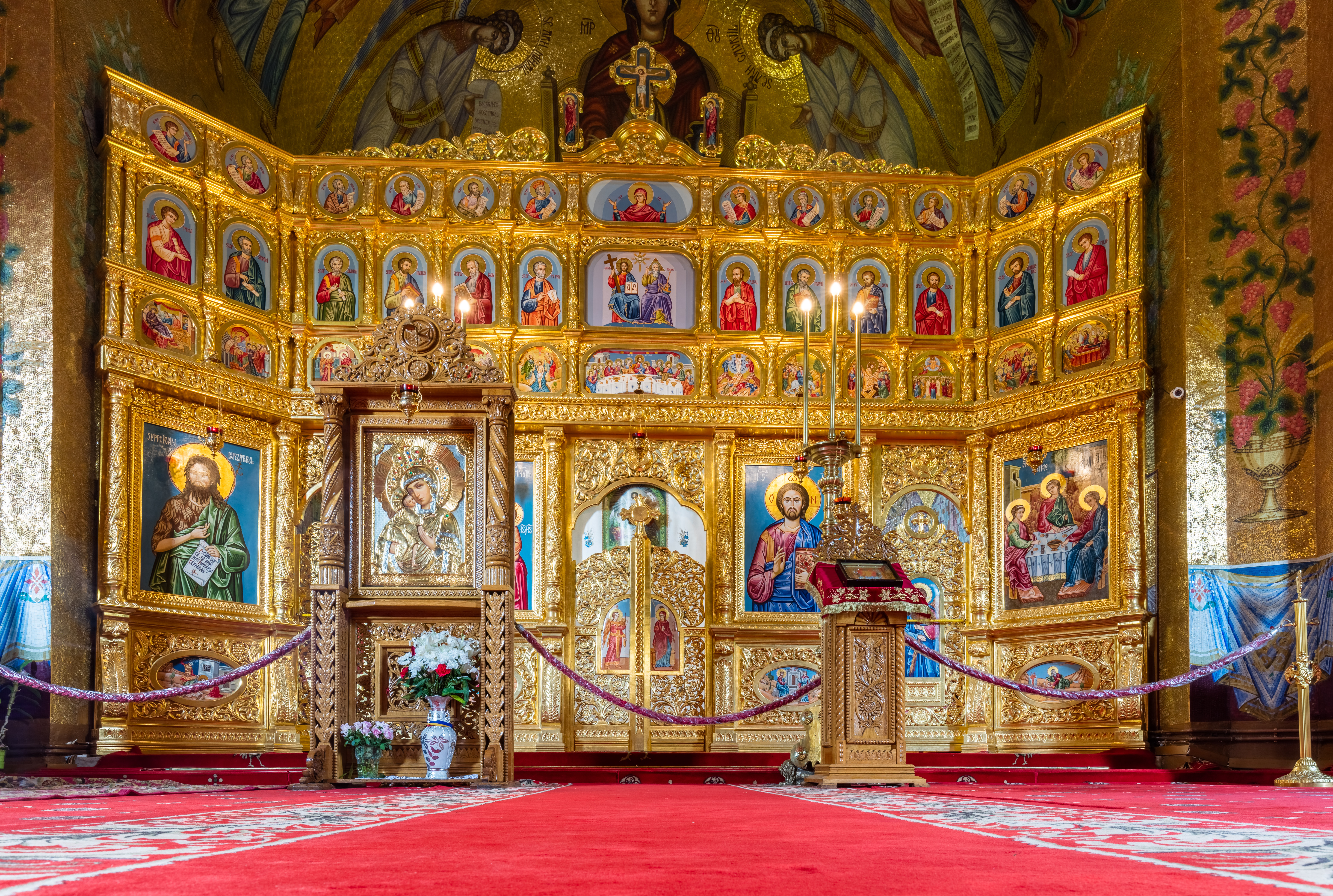 Cocos Monastery, Romania